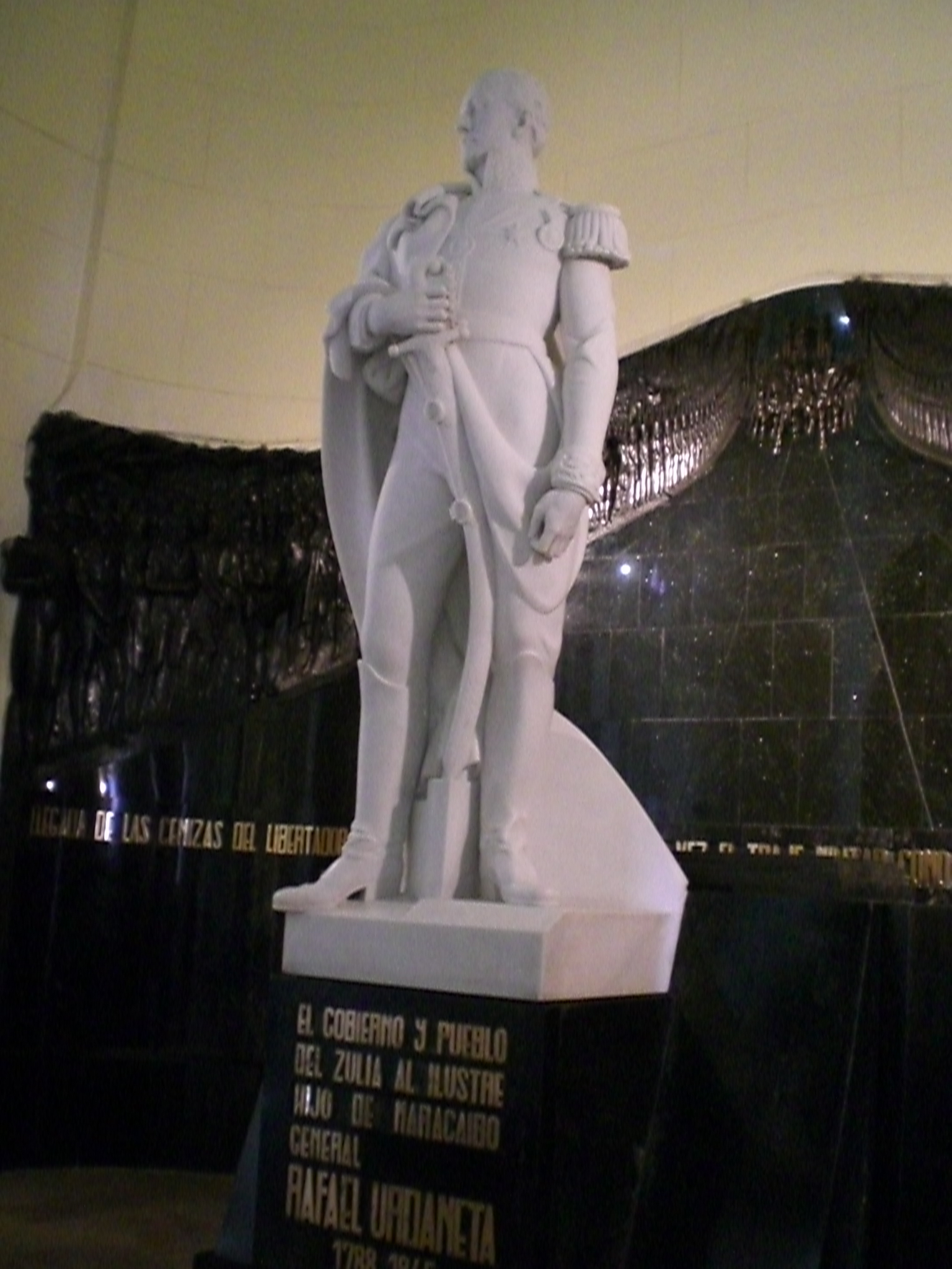 Rafael Urdaneta statue at the National Pantheon of Venezuela.